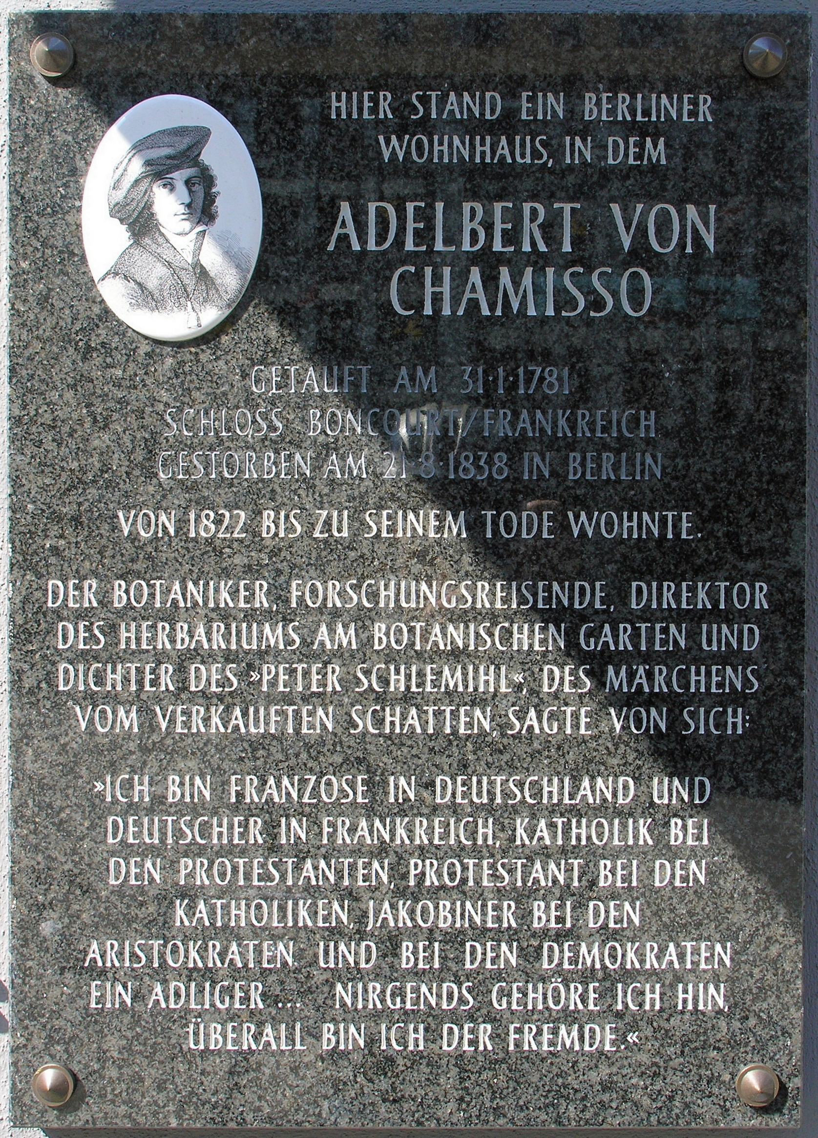 Memorial plaque, Adelbert von Chamisso, Friedrichstraße 235, Berlin-Kreuzberg, Germany Koordinate:52°30′9.2″N 13°23′27.9″E / 52.502556°N 13.391083°E